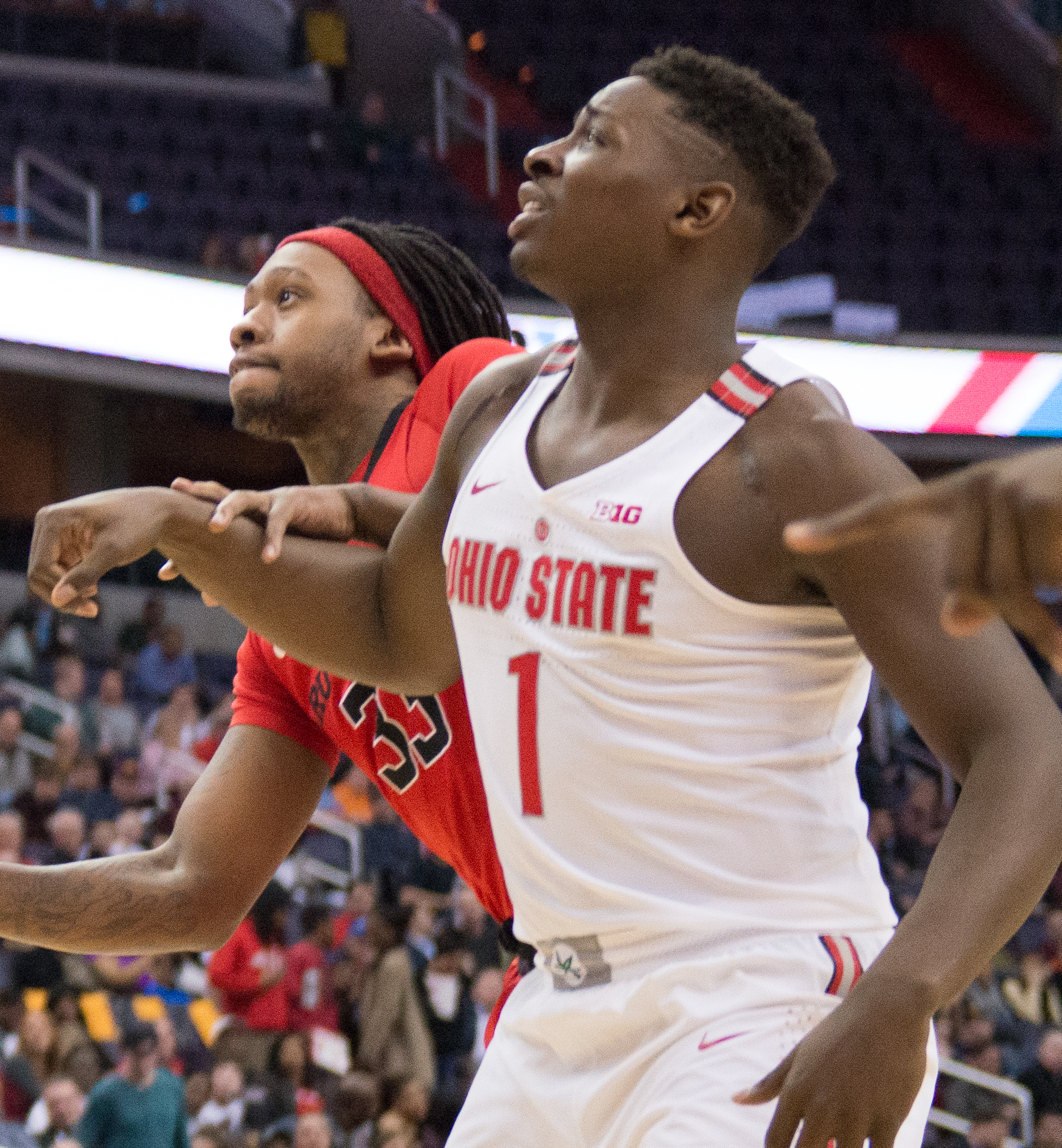 Jae"Sean Tate of Ohio State